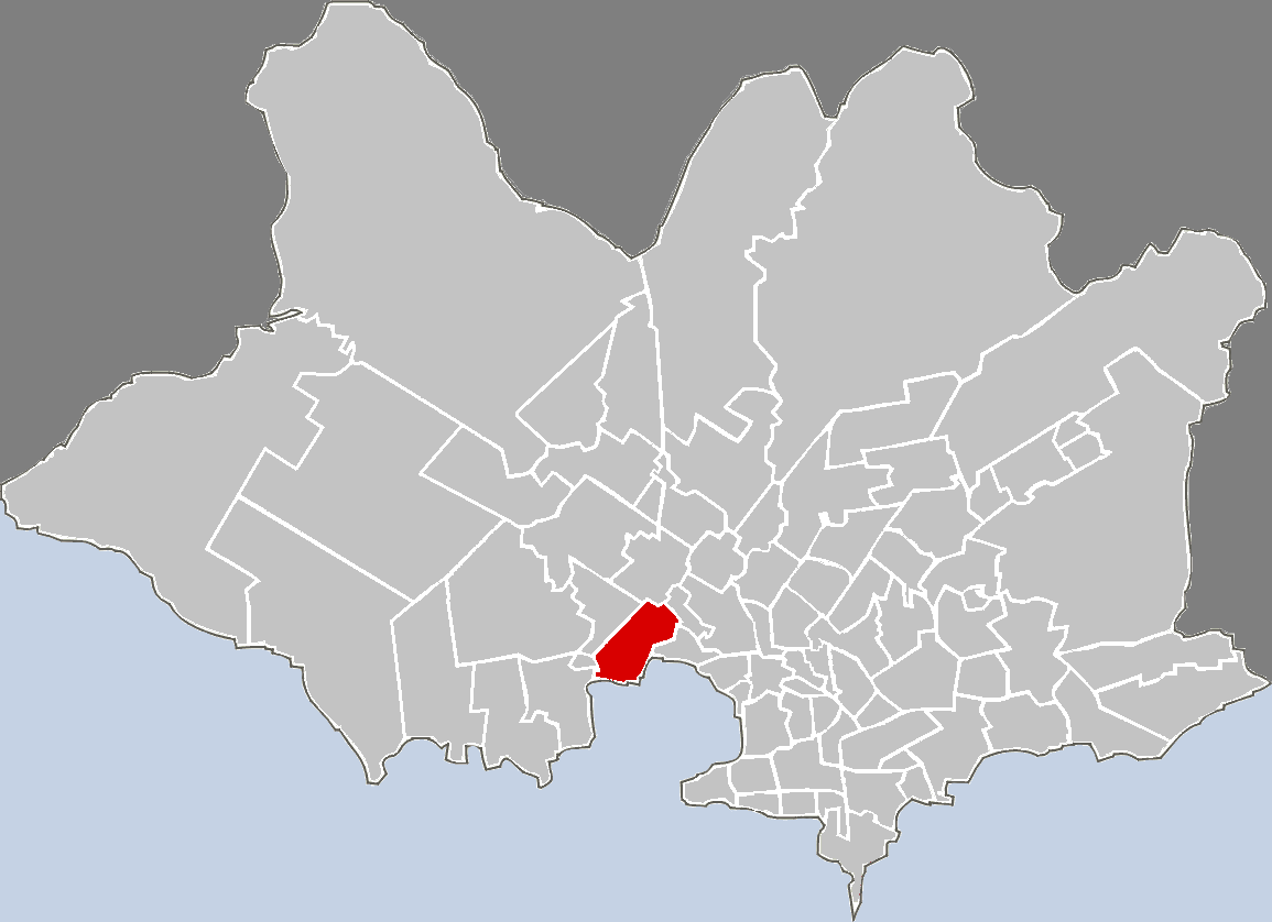 Map highlighting the given barrio in Montevideo.